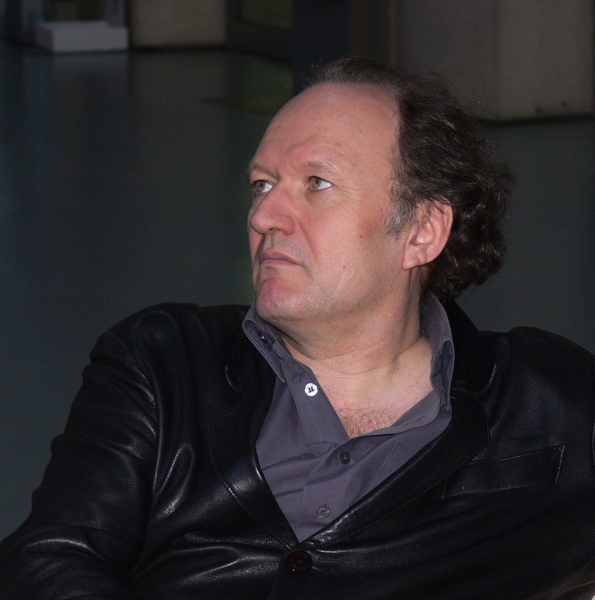 Portrait of Philippe Hurel